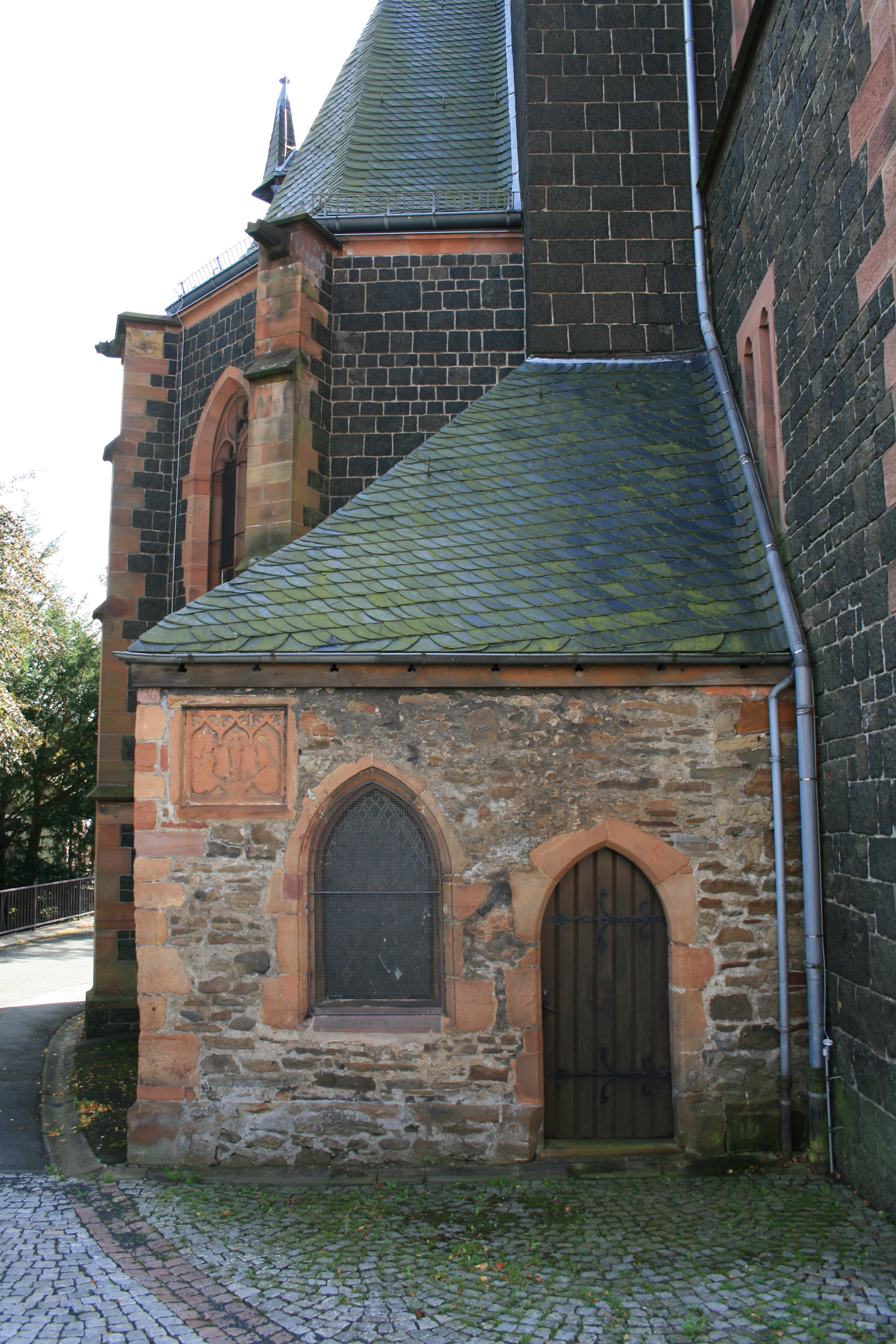 Germany, Hesse, Biedenkopf: Notgotteskapelle from the 15th Century, preserved part of the now demolished Johanneskirche, integrated to next church building (evangelical Stadtkirche from 1891).